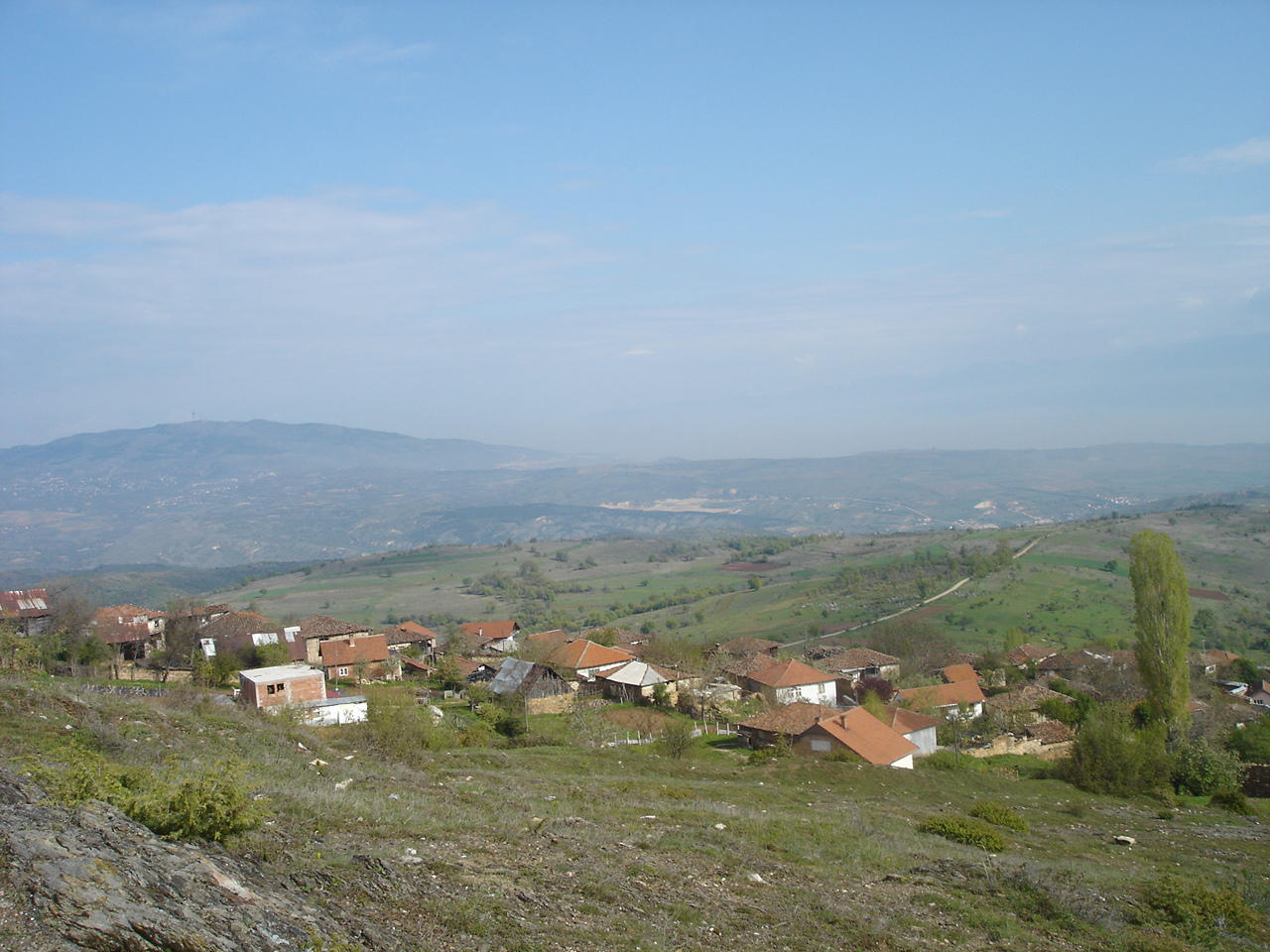 village of Gorno Kolichani, Macedonia